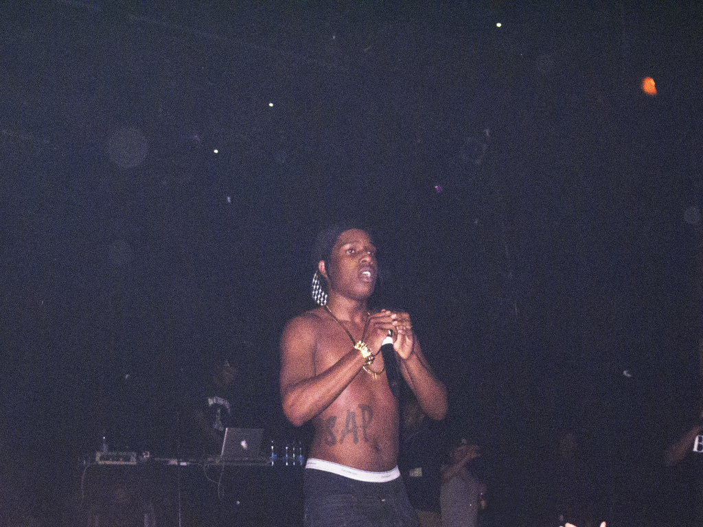 ASAP Rocky performing at Montreal's Corona Theatre, 2012